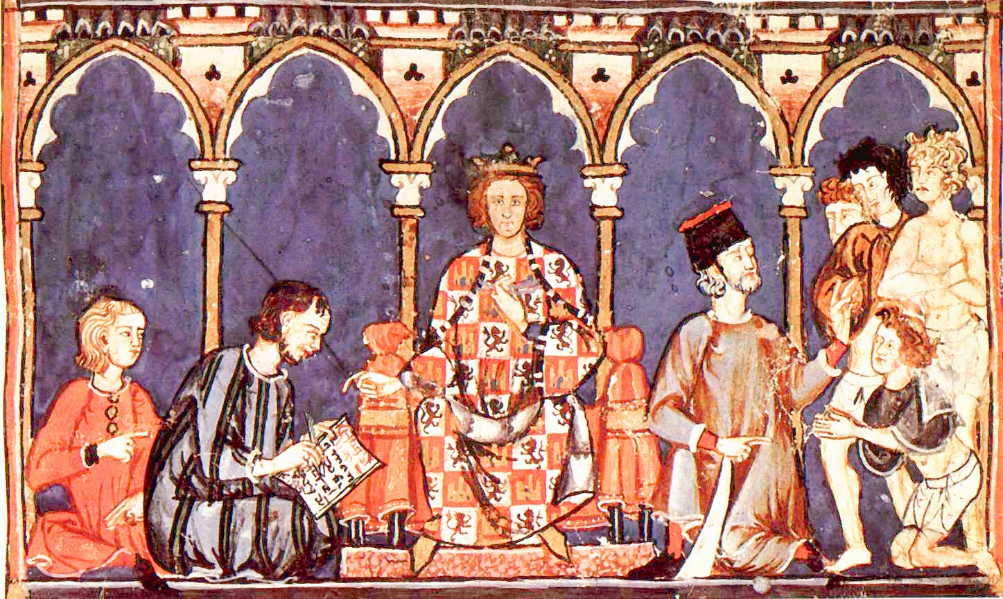 Alfonso X of Castile, from his Libro de los Juegos (folio 65r)